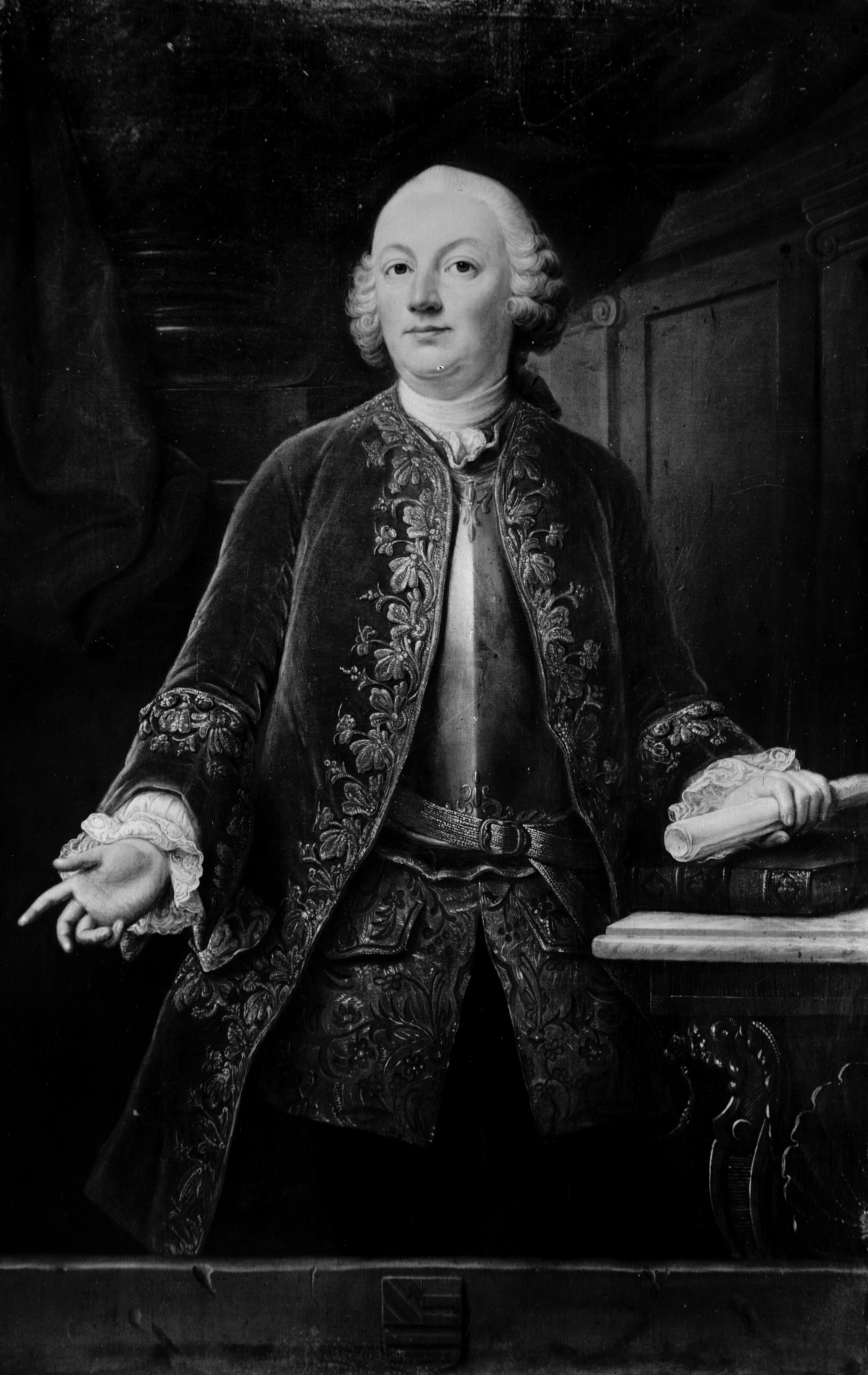 Portrait of Onno Zwier van Haren (1711-1779 oil on canvas 145 x 94 cm 1752)